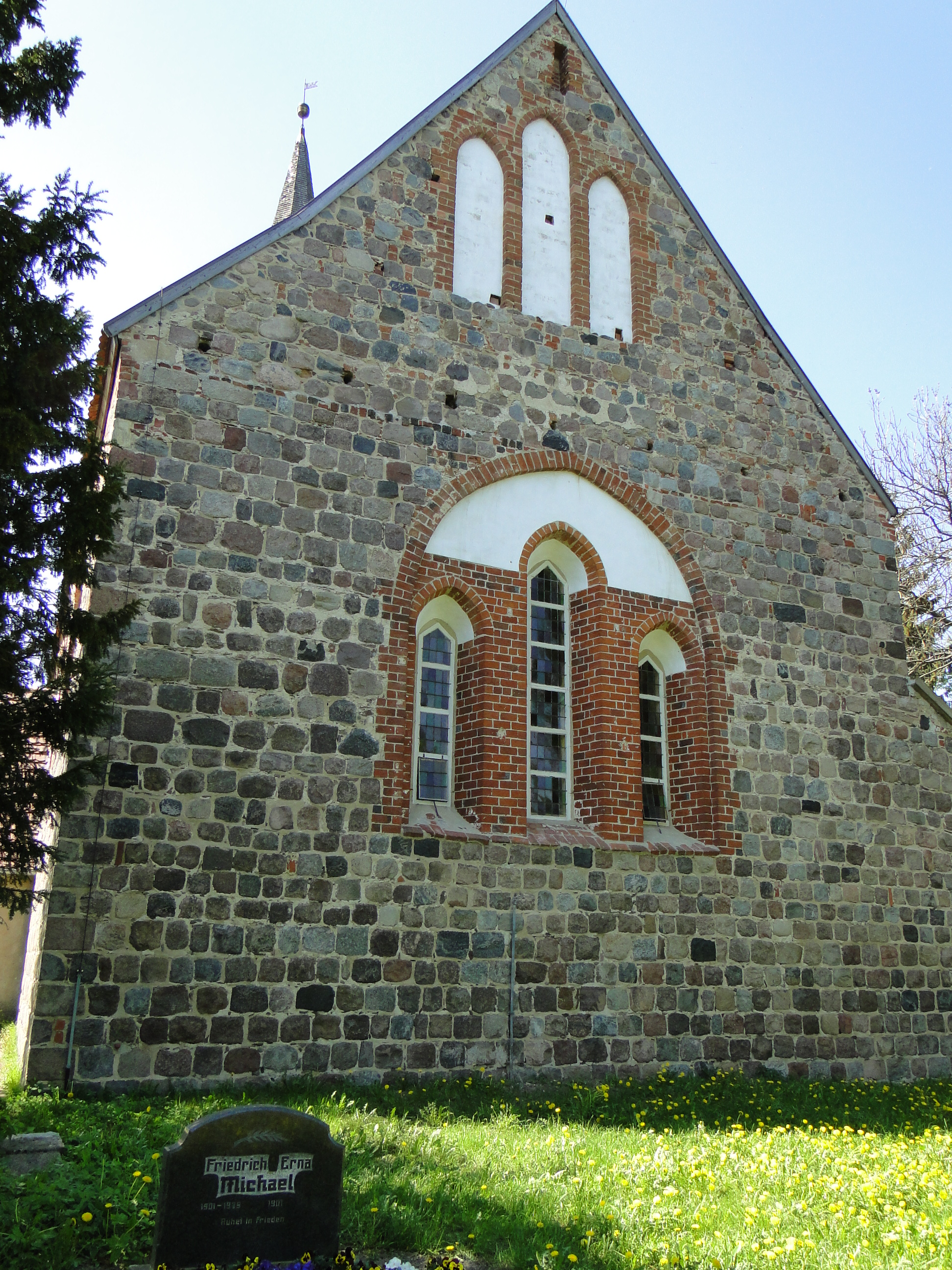 Church in Helpt, district Mecklenburg-Strelitz, Mecklenburg-Vorpommern, Germany